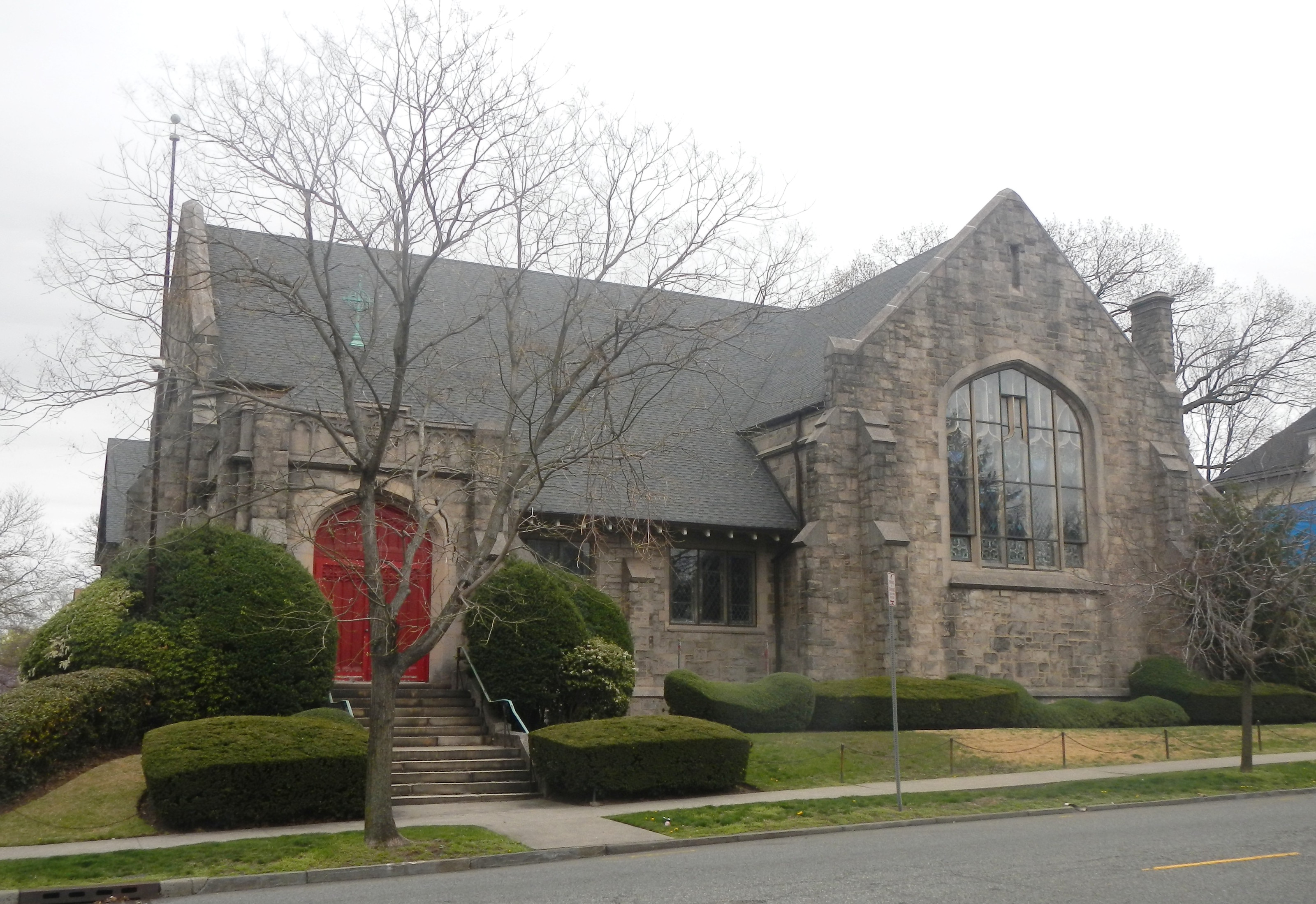 Looking north across Heller Parkway at church on a cloudy afternoon.